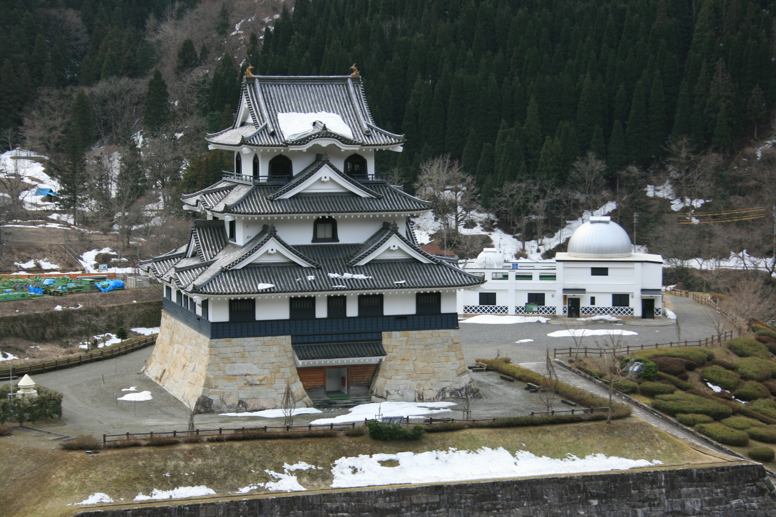 Fujihashi Castle and Nishimino Planetarium, in Ibigawa, Gifu prefecture, Japan.